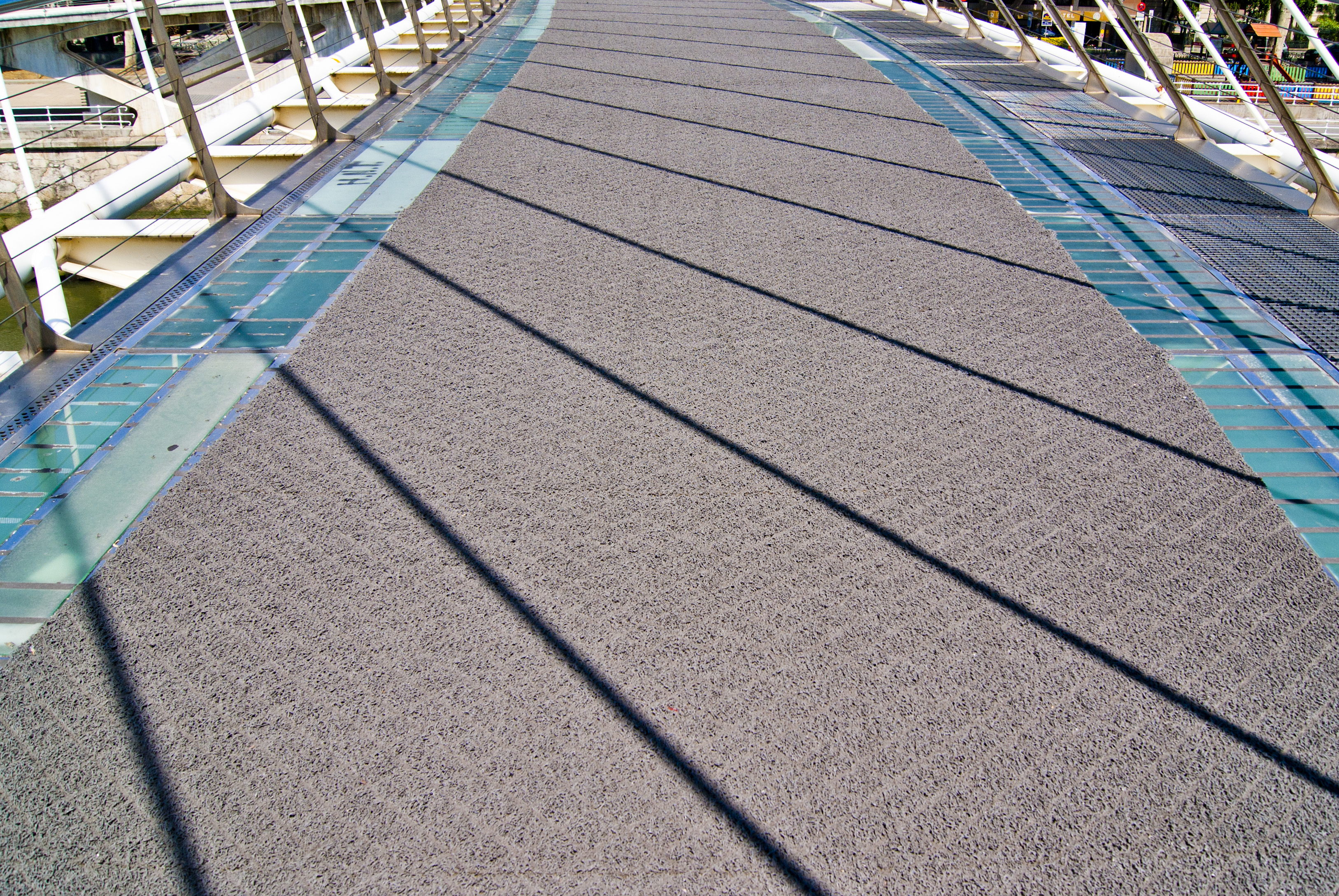 Carpet that had to be installed over the Zubizuri footbridge, Bilbao.